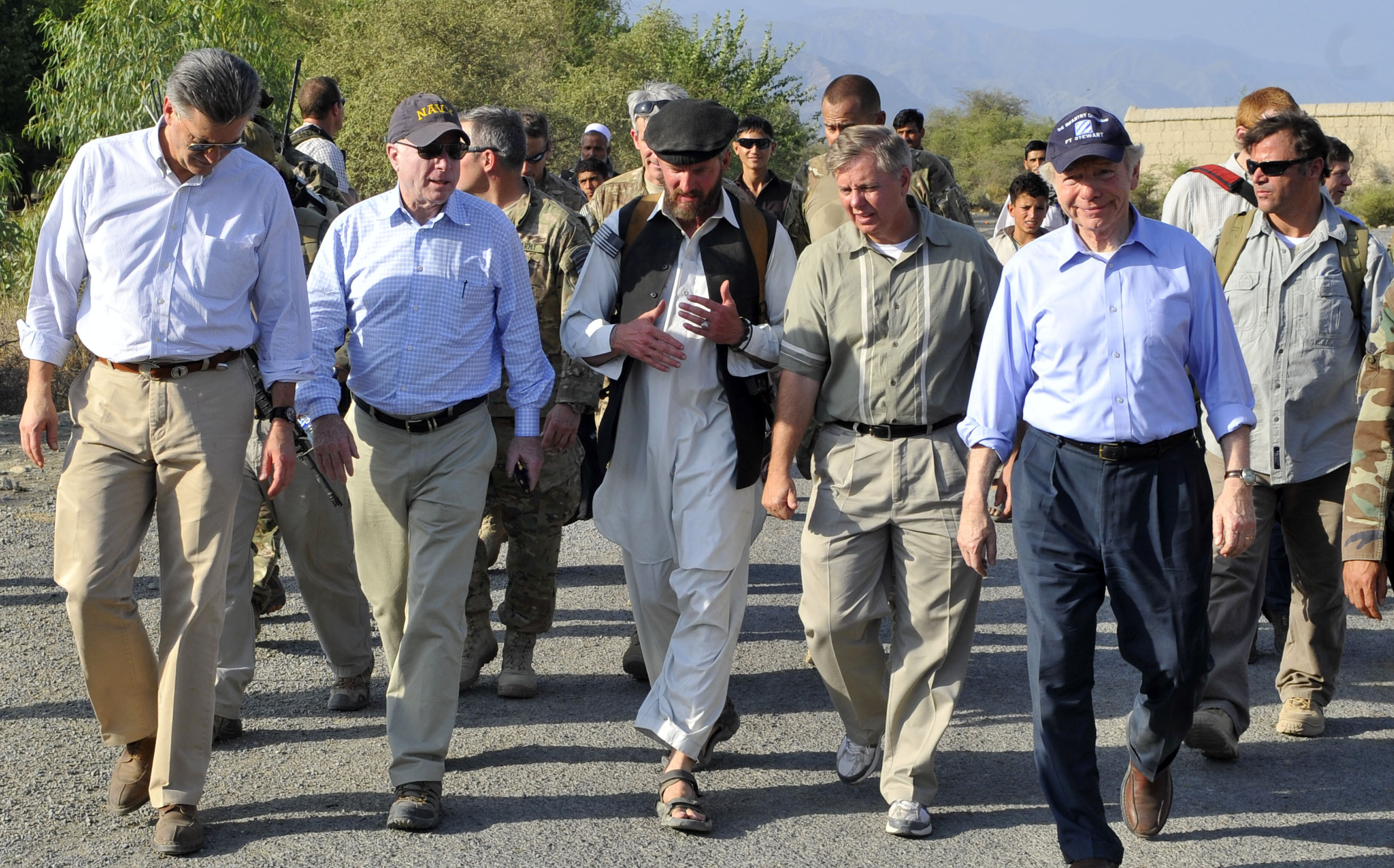 Sens. John McCain, Lindsey Graham and Joe Lieberman and a senatorial advisor discuss future operations and plans with a U.S. special operations forces team leader in Mangwel village, Khas Konar District, Konar province, July 4. The senators visited the village to meet with a village elder and SOF team members to discuss current and future plans for Afghan Local Police and Village Stability Operations. 19th Public Affairs Detachment Photo by Sgt. Lizette Hart Date Taken:07.04.2011 Location:KONAR PROVINCE, AF Related Photos